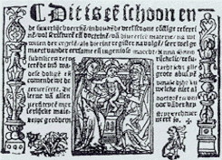 Title page of the en:1528 volume of Anna Bijns' Refereinen. 08:52, 14 December 2005 Cwoyte 245x177 (22034 bytes) (Title page of the :en:1528 volume of Anna Bijns ' Refereinen .)